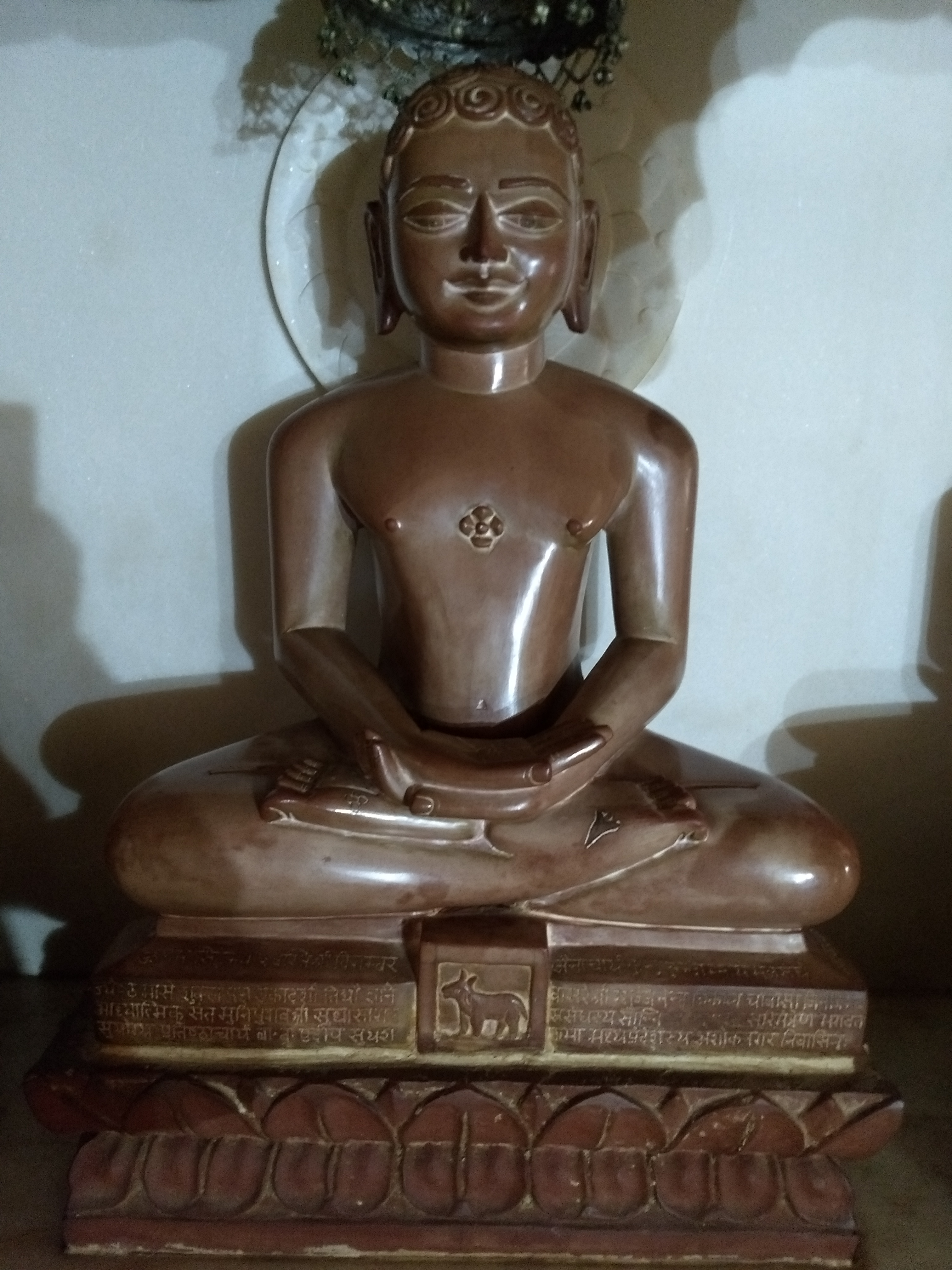 Jain statues in Anwa, Rajasthan